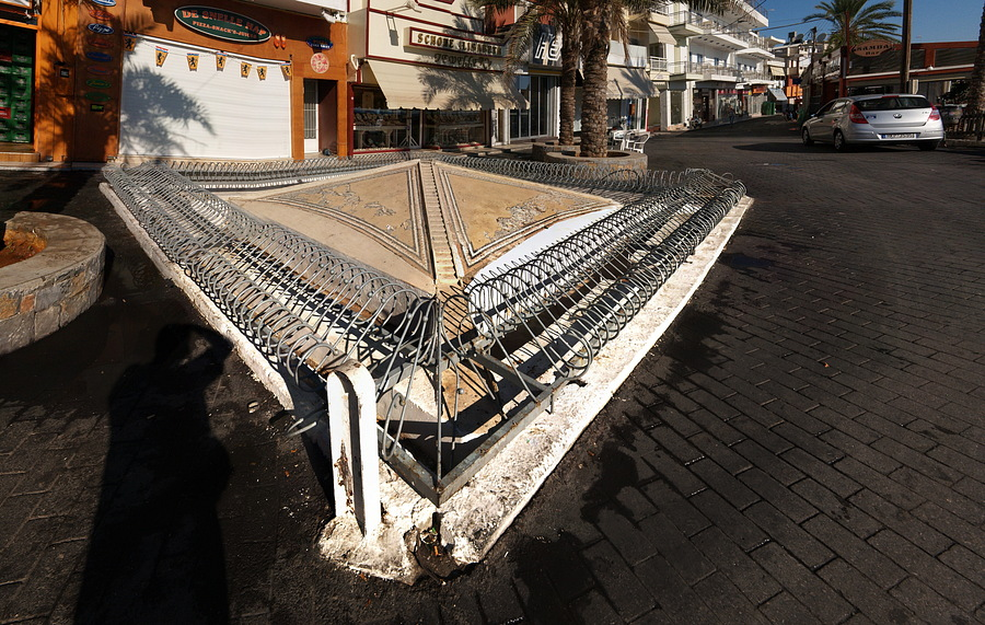 Roman fountain in Limi Hersonisos seaside street